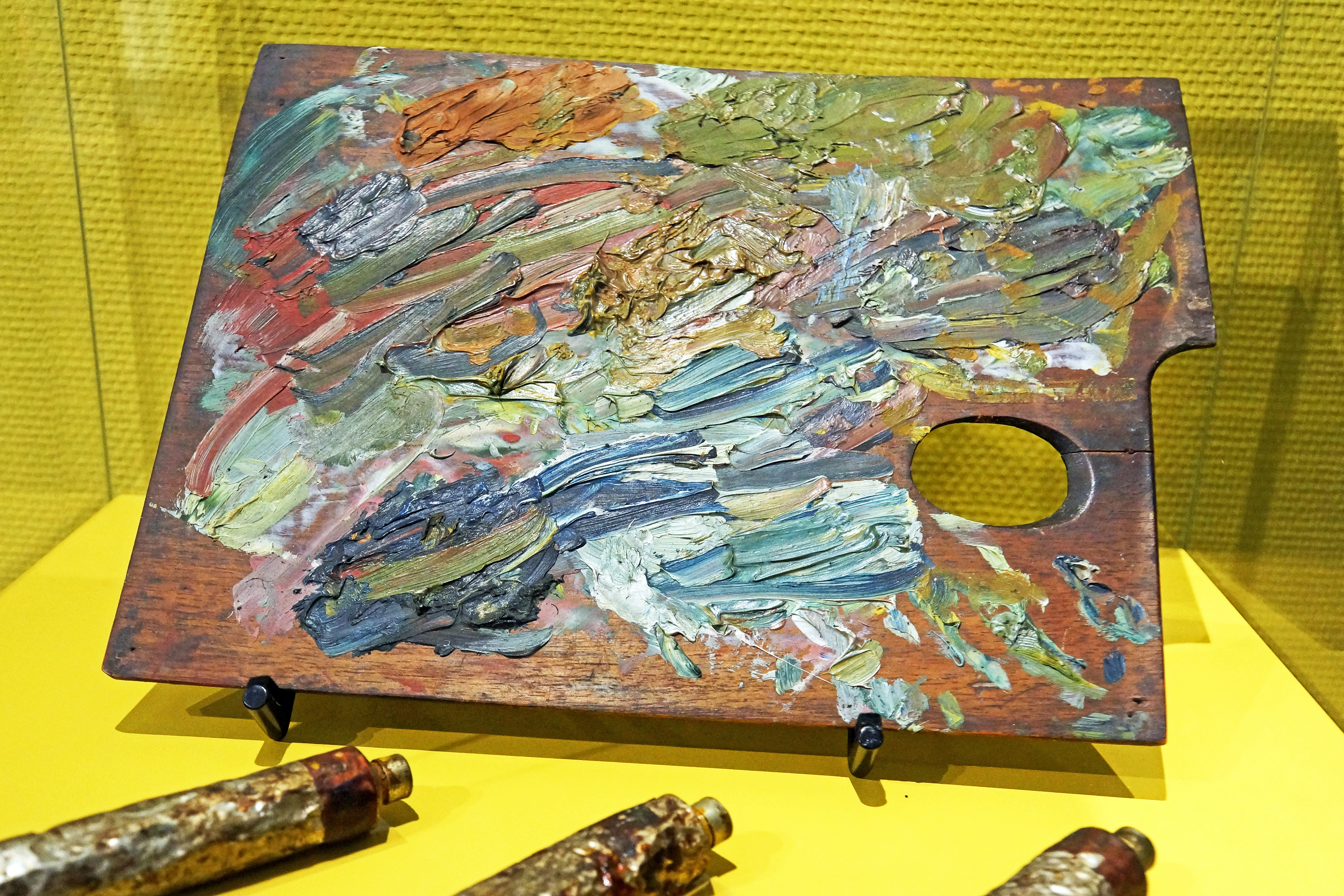 Van Gogh's palette and tubes of paint. "The only time I feel alive is when I'm painting"